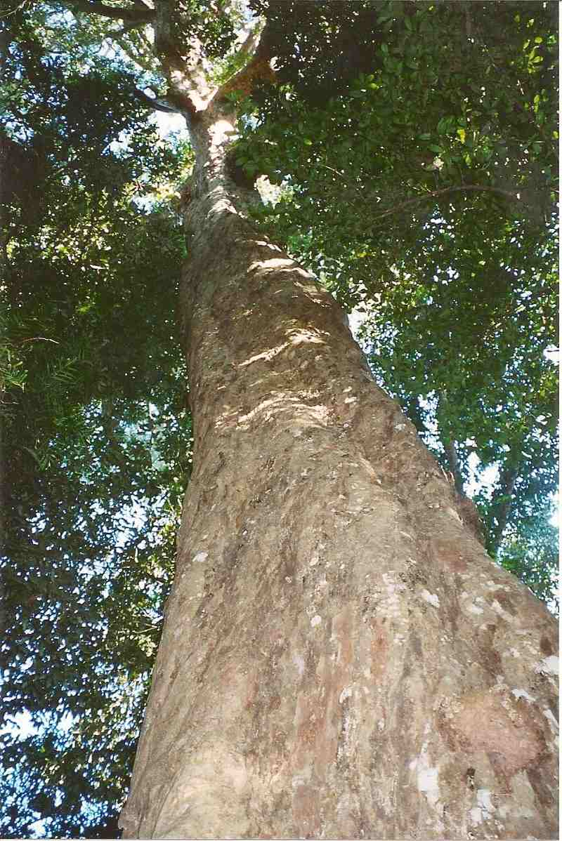 Syzygium francisii, Booyong_Reserve, village of Booyong, near Lismore, New South Wales, Australia. 45 metres tall tree, estimated by Alexander Floyd